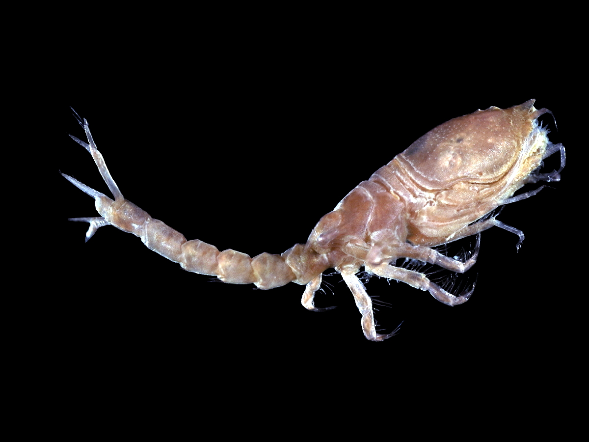 Cumacean photographed with an Axiocam (Zeiss) camera mounted on a Zeiss Stemi C-2000 binocular microscope. Length: ~13 mm. This cumacean was sampled on the Belgian Continental Shelf in 1997..